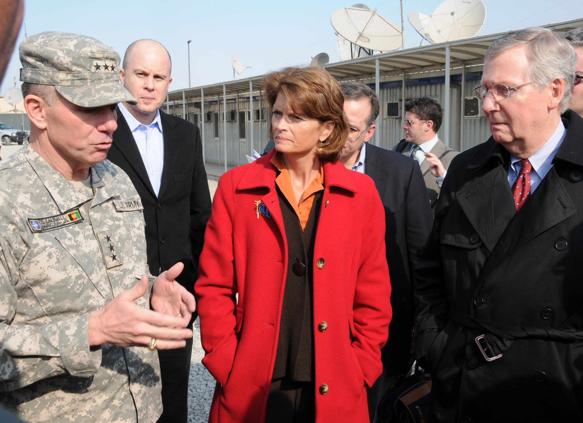 100109-N-9594C-004 – KABUL – Lt. Gen. William B. Caldwell IV, left, Commander NATO Training Mission – Afghanistan, talks with U.S. Senators Lisa Murkowski and Mitch McConnell during a tour of the Central Training Facility (CTC), Kabul, on January 9, 2010. Sens. Murkowski and McConnell were joined by Senators Roger F. Wicker and Mike Crapo and Rep. Michael Castle for a visit to CTC and other facilities in the area. The Congressional delegation received briefings from CTC, NATO Training Mission-Afghanistan (NTM-A), and International Security Assistance Force senior leadership and met with Afghan National Police officers while in the Kabul area. The mission of NTM-A is to train the Afghan National Security Forces and enhance the Government of the Islamic Republic of Afghanistan’s ability to achieve a stable and secure country (U.S. Navy photo by Chief Mass Communication Specialist F. Julian Carroll)